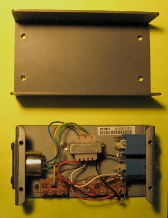 Direct-Box DOD - photo inside